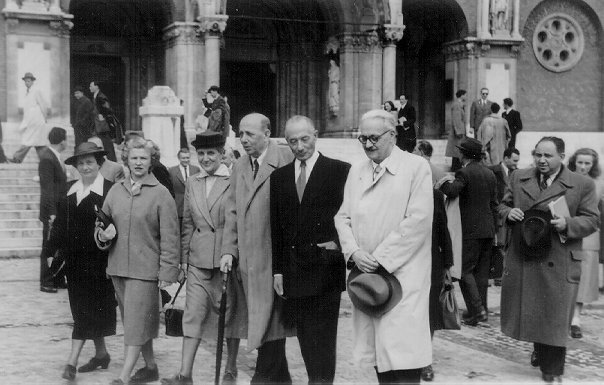 From right István Rusznyák, Géza Hetényi, Kautch German professor, Mrs Kautch, Mrs Issekutz, Erzsébet Korányi are on the Chatedral square at Szeged